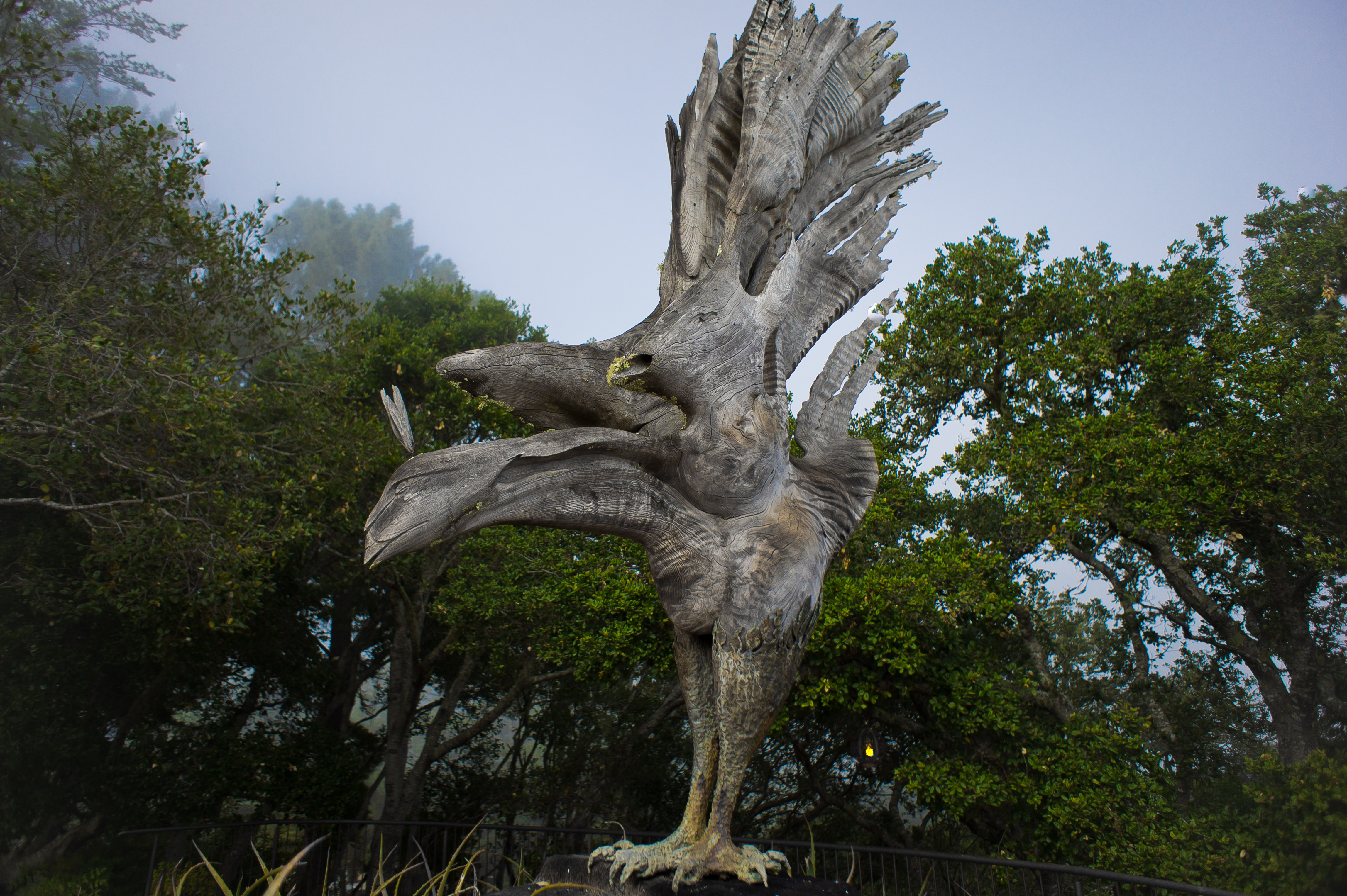 Sculpture at Nepenthes, a restaurant in Big Sur, California